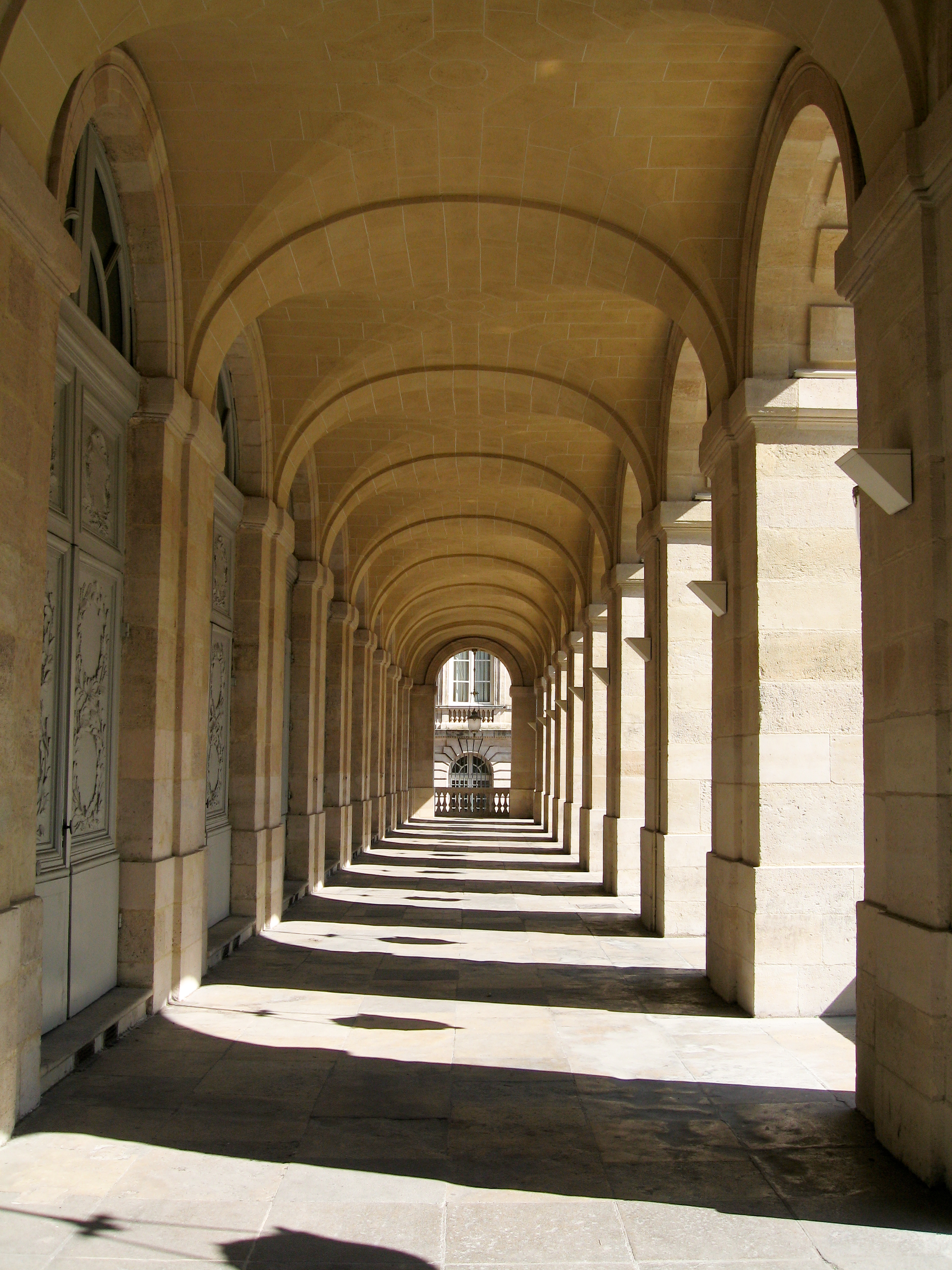 Detail of Grand Theatre, Bordeaux, France.